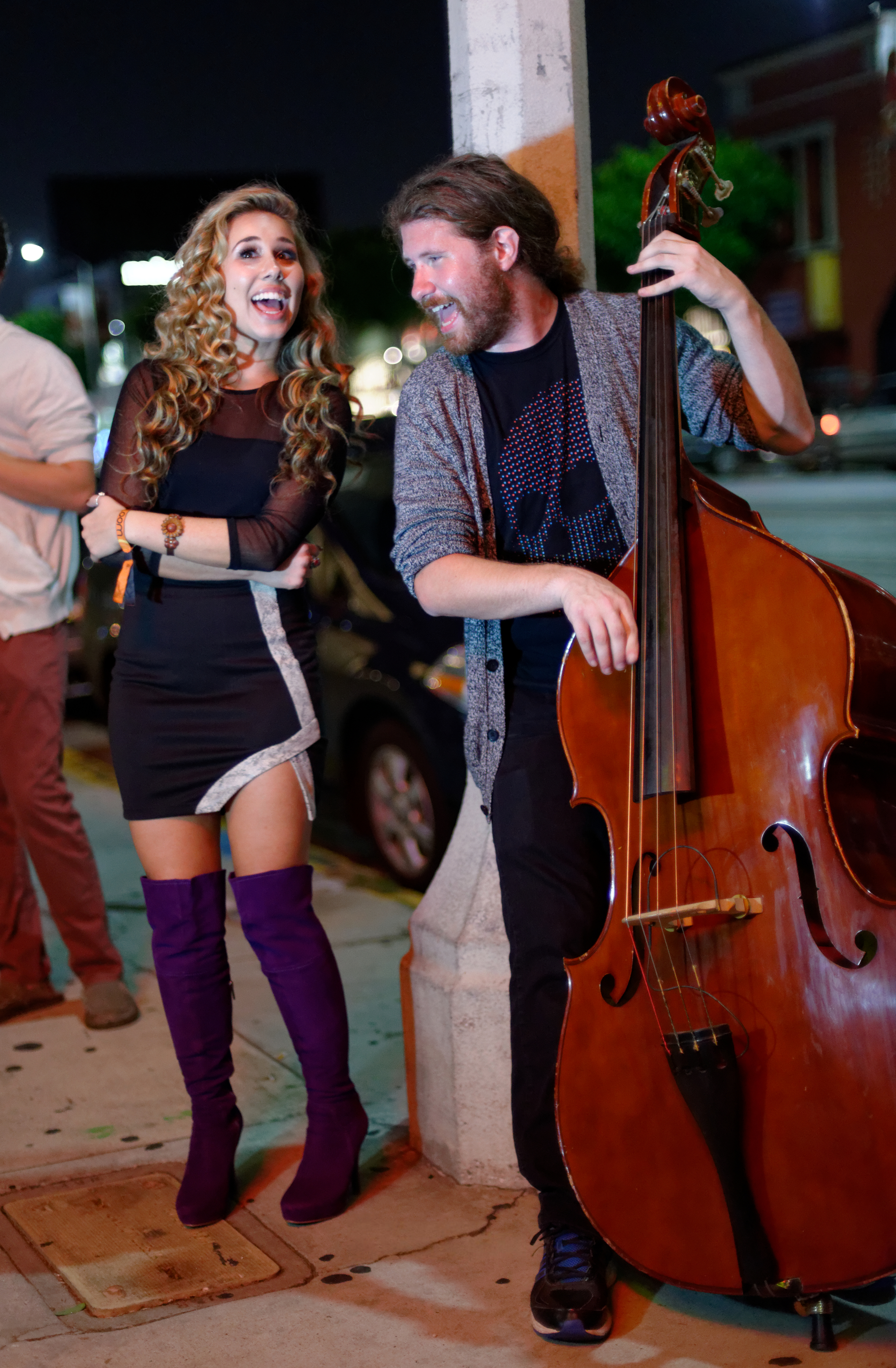 Haley Reinhart, Casey Abrams, Mark Ballas, and Dylan Chambers performing live at Room 5 Lounge (and then out on the sidewalk outside the venue) in Los Angeles California on Wednesday June 25th, 2014.